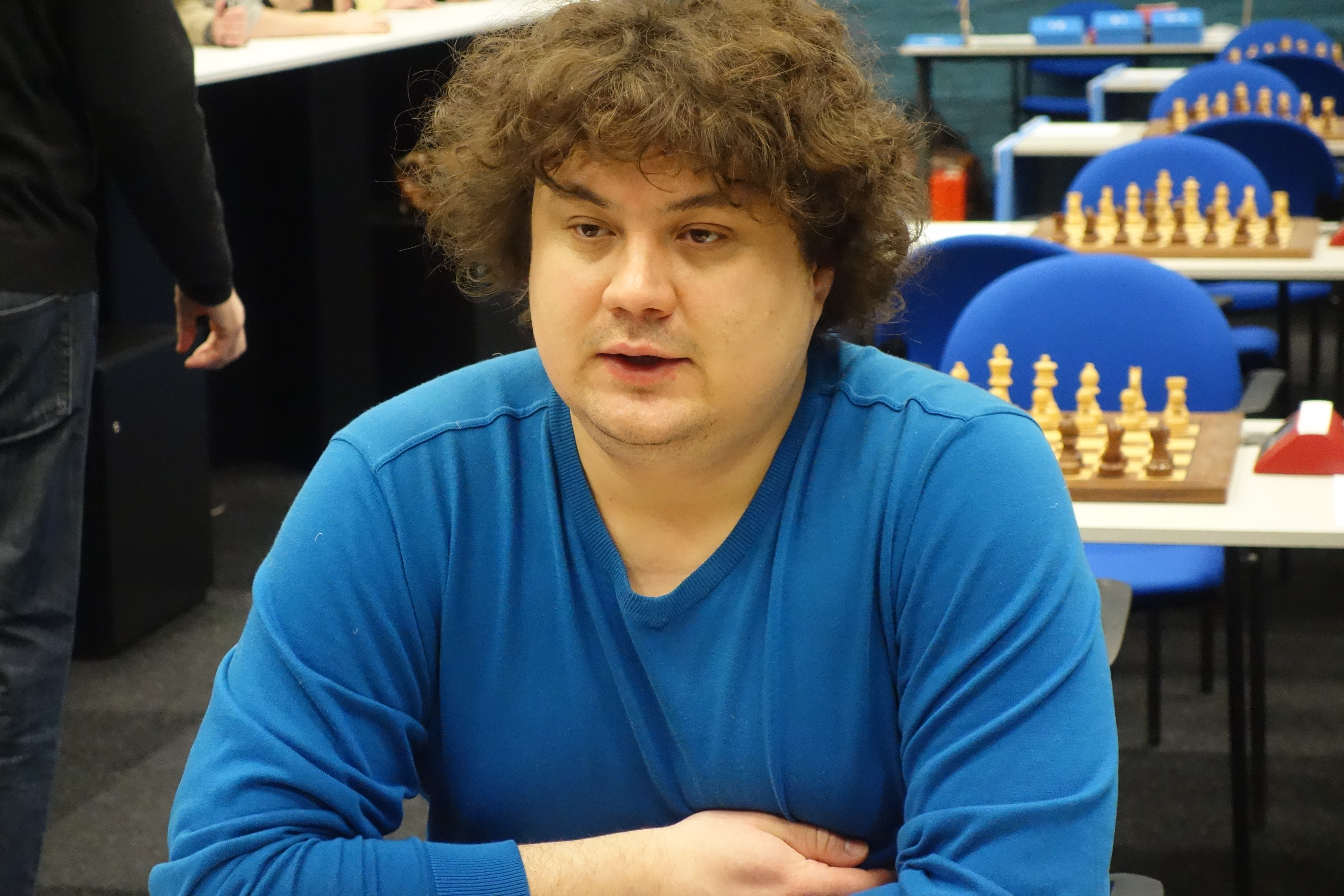 Tata Steel chess tournament 2018. Anton Korobov